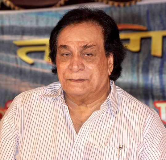 Kader Khan awarded the ‘Sahitya Shiromani Award’